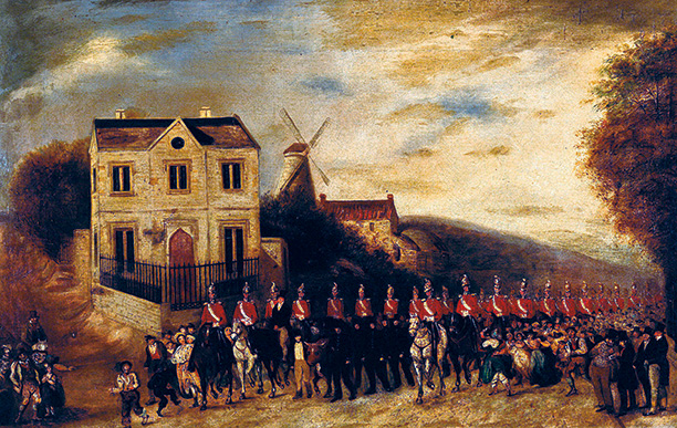 Stamford Museum had a jug which celebrates Ann Blades in 1792. She became famous for her role in Stamford Bull running. This painting shows the last bull run being broken up by the militia. The artist is at bottom right (ish) Stamford Museum is probably closing in June 2011. Just months to go and I still couldn't get permission to show this picture to you. Despite the fact that its legal and moral to allow me to do it.